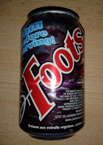 A can of Dr Foots, an imitation of Dr Pepper. Produced by the Dutch Bavaria Brewery.